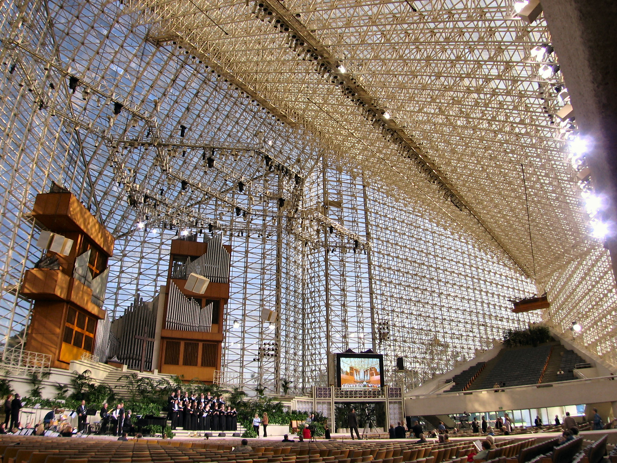 The Interior of the Crystal Cathedral, with the "Glory of Easter" set installed.